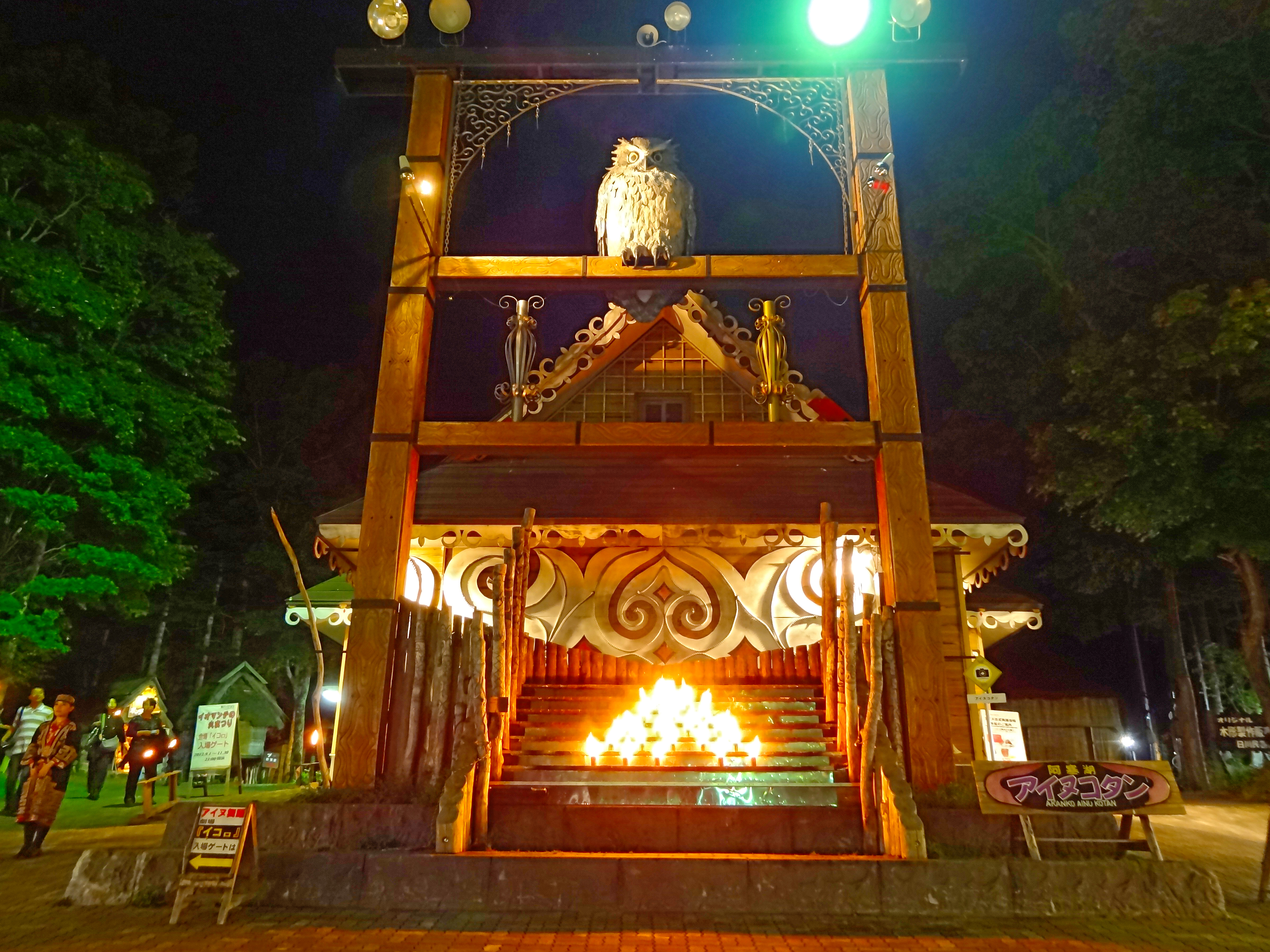 Kotan in Akan, Kushiro City, Hokkaido prefecture, Japan